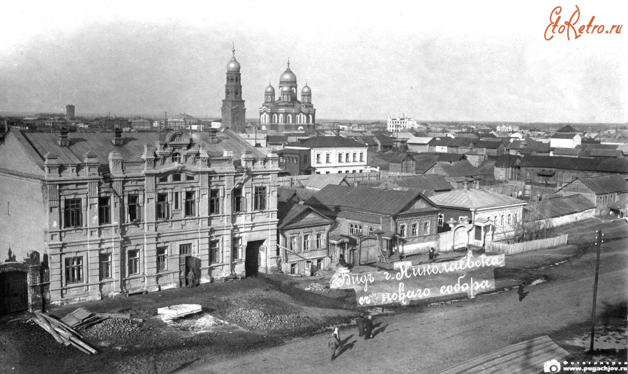 Church of the Resurrection of Christ in Nikolayevsk (now Pugachov)